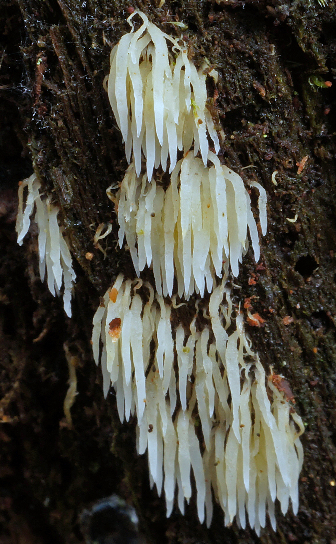 Mucronella bresadolae (Quél.) Corner Image location: Tualatin Hills Nature Park, Beaverton, Oregon, USA On a rotting conifer stump (probably Douglas fir). A basidium measured 25 microns. The largest of the few spores was 7×5 microns. Spores appeared amyloid, contrary to description. Used references: MatchMaker, Swiss Fungi For more information about this, see the observation page at Mushroom Observer.